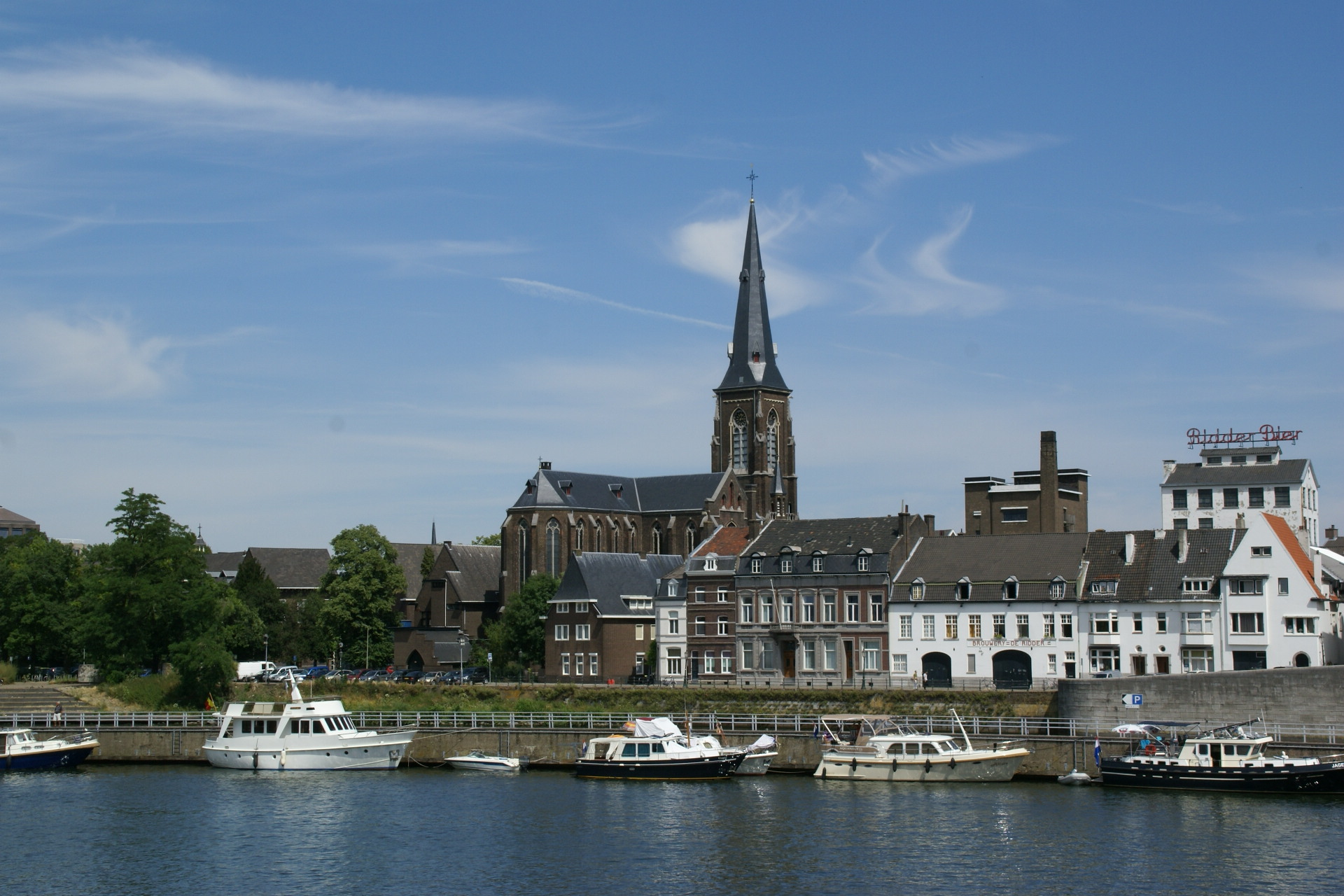 Sint Martiuskerk and the Meuse River in Maastricht, Netherlands